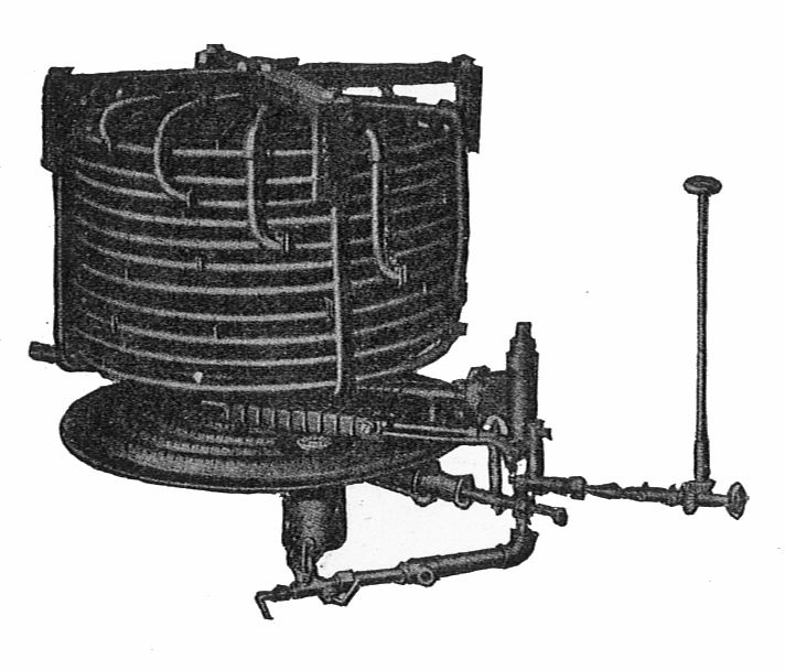 White steam car steam generator (Rankin Kennedy, Modern Engines, Vol III).jpgFig. 227 White Steam Generator